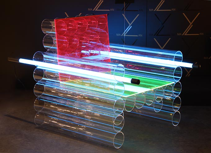 Interlux chair by Manfred Kielnhofer Interlux chair literally lights up the room. Reminiscent of American minimalist artist Dan Flavin’s fluorescent light sculptures, this unique chair literally lights up the room. Manfred Kielnhofer plays with fluorescent light and transparent tubes that change colour creating an out of this world atmosphere. The chair is a composition of unique long neon lighting contained in transparent tubes placed horizontally; a surprise of what one can do with commercially available fluorescent light fixtures. Also available in environmentally friendly paper tubes. Sponsored by: Plexiglas – The original by Röhm, Evonik Industries, Interlux Austria Manfred Kielnhofer, Linz, Austria